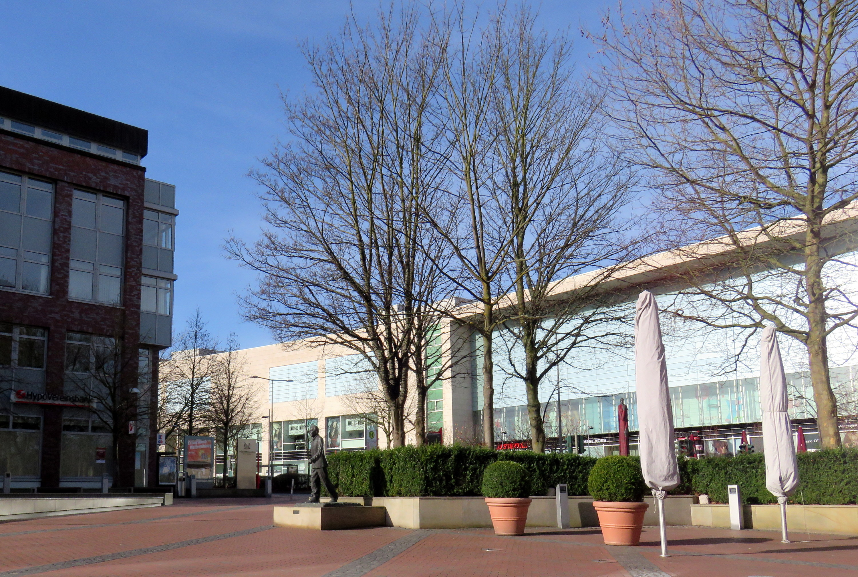 Sculpture in memory of businessman Werner Otto (1909-2011) opposite shopping mall “Alstertal-Einkaufszentrum“ in Hamburg-Poppenbüttel, created by sculptor Bernd Stöcker on the occasion of Otto's 100th birthday 2009.